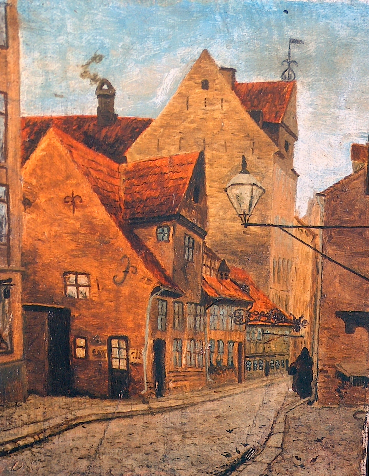 The street Holmensgade (now Bremerholm) in Copenhagen, Denmark. H, C. Andersen lived in the house. Danish description: "Holmensgade 8, hvor H.C. Andersen boede i perioden 1819 -1821. Maleri af A.Larsen, 1884. Øregaard Museum. Set i H.C. Andersens Hus."